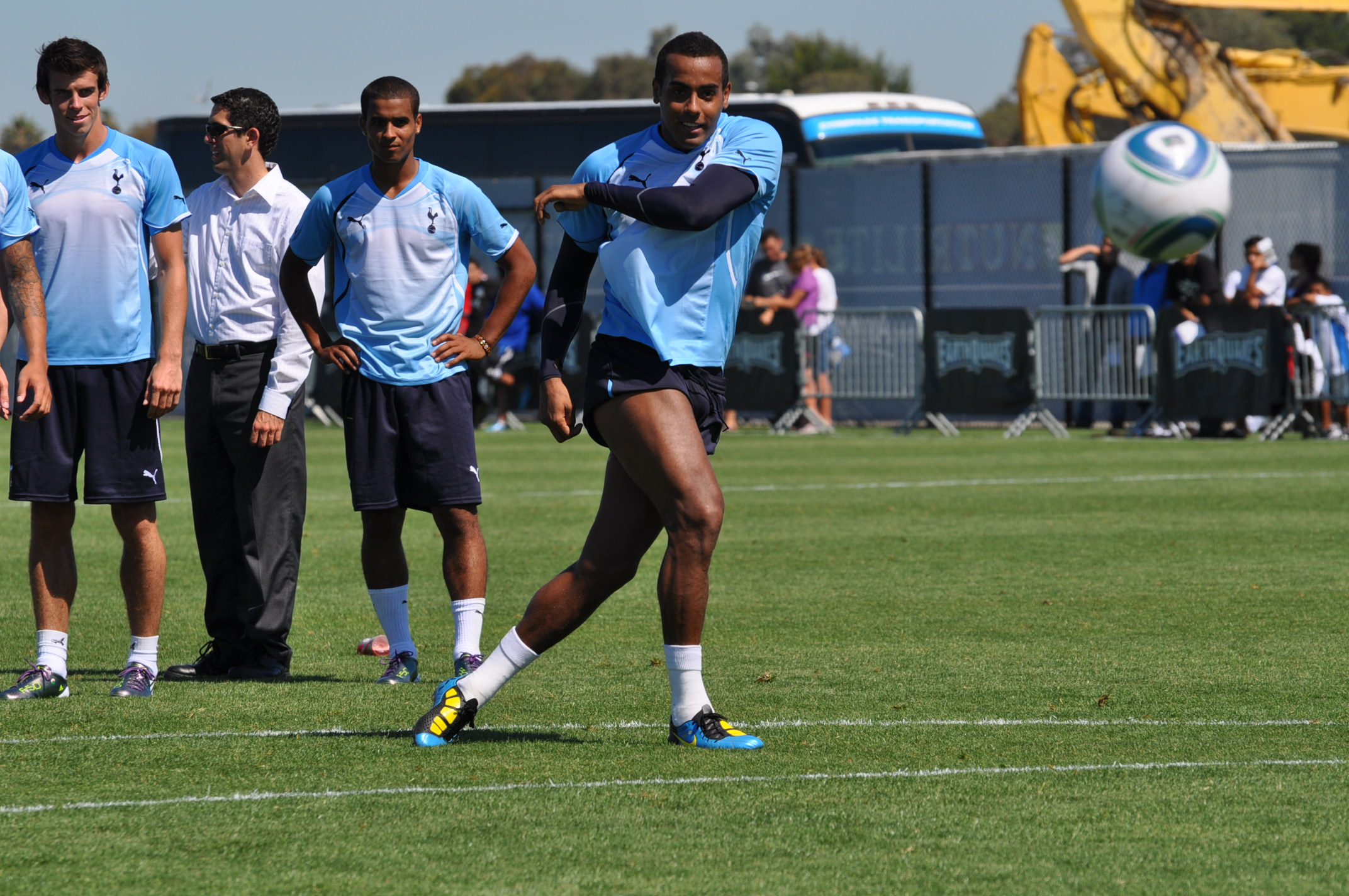 Tom Huddleston during Tottenham Hotspur's tour of the United States in 2010.